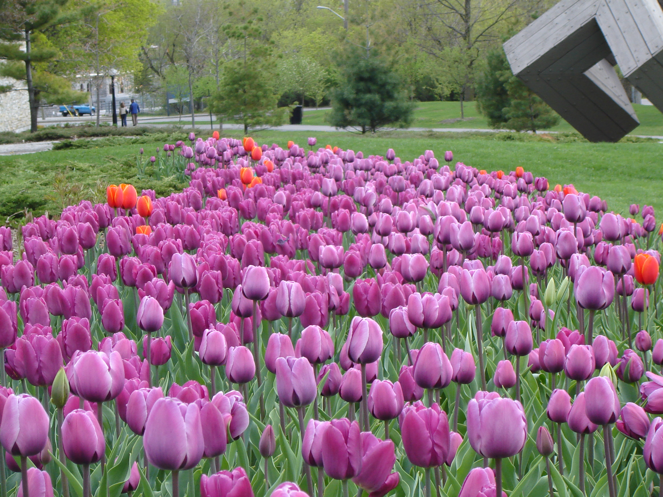 Picture from the Garden of the Provinces and Territories in Ottawa, Ontario, Canada during the 2006 Tulip Festival